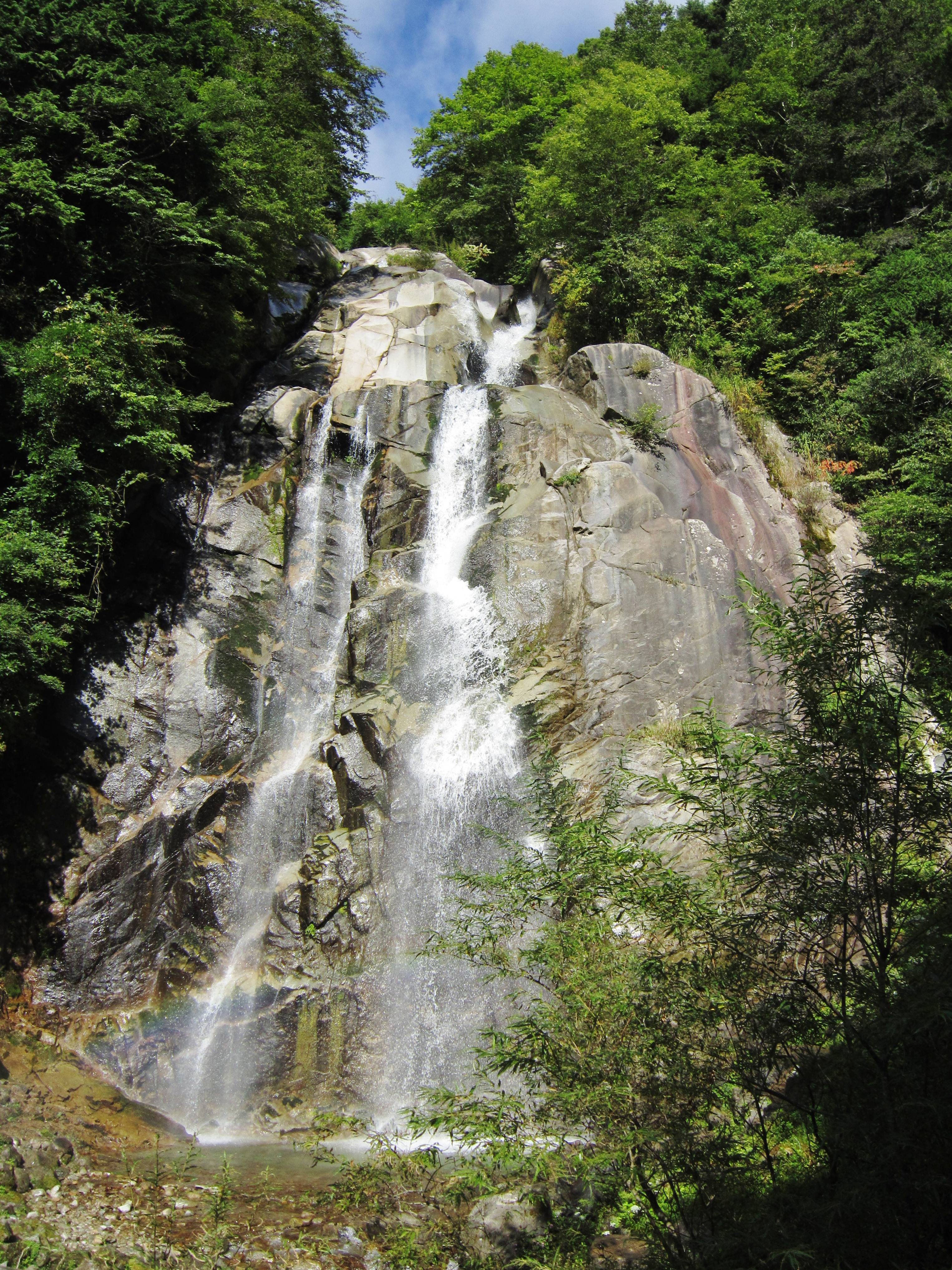 Fudō Falls (Takamori, Nagano).